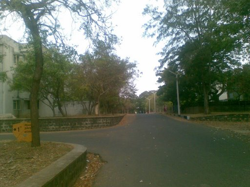 Skyline of Kalpakkam. View from 1st Street near Ladies Hostel